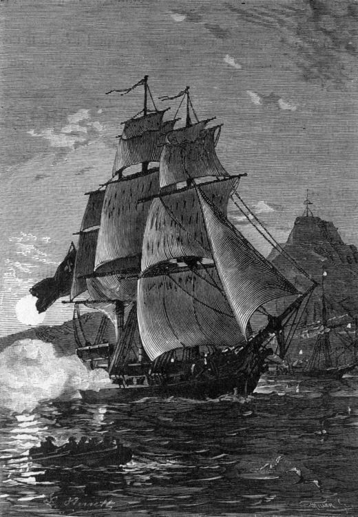 An illustration from Jules Verne's novel "The Archipelago on Fire" drawn by Léon Benett.